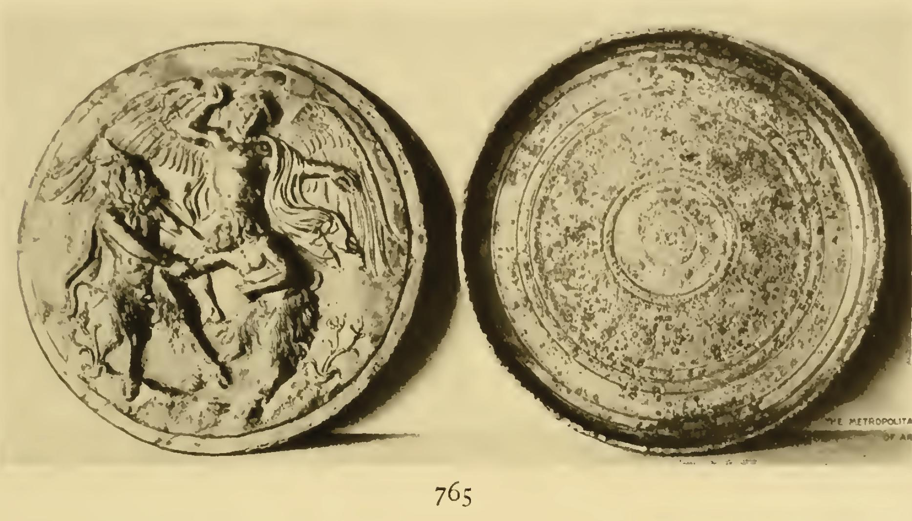 Bronze Mirror